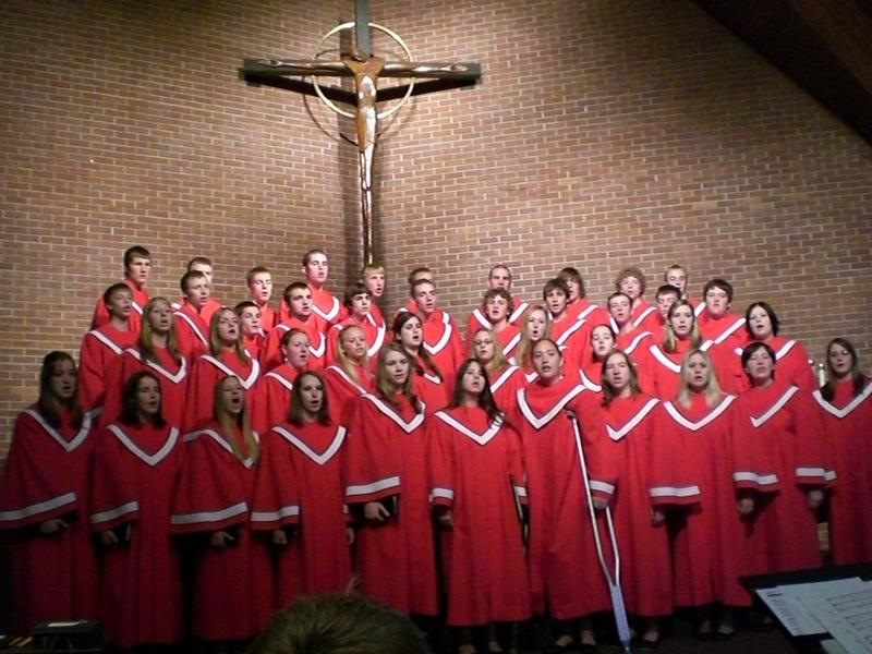 MLS Concert Choir 2006-2007